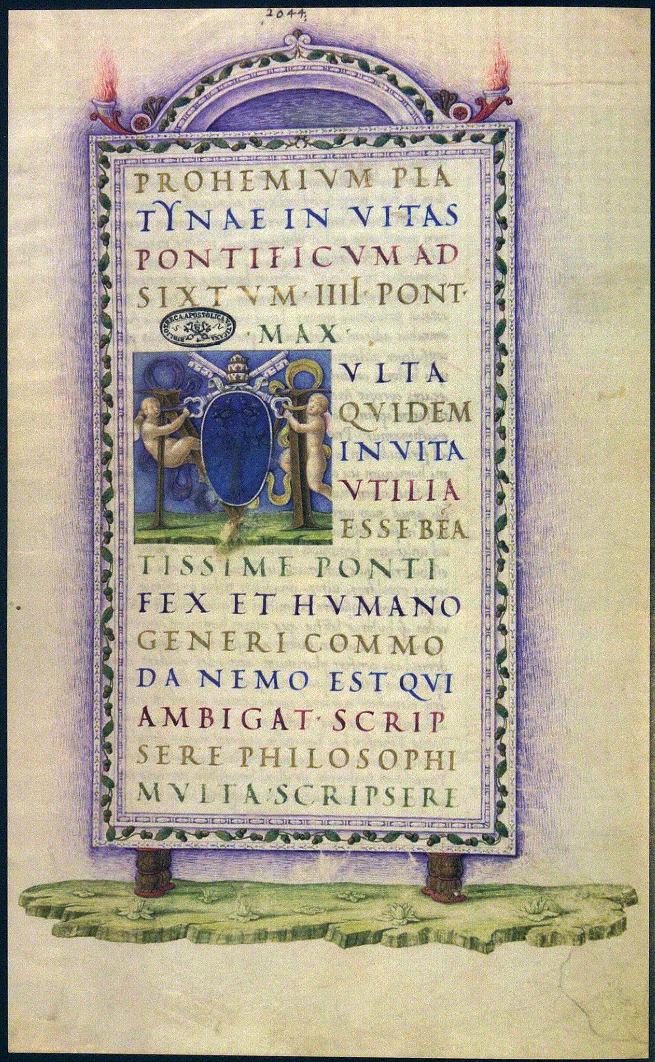 The beginning of the preface to the History of the lives of the popes in the authors’s dedication copy for Pope Sixtus IV, manuscript Vatican City, Biblioteca Apostolica Vaticana, Vat. lat. 2044, fol. 1r.